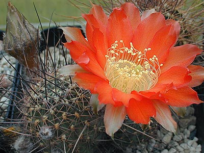 Echinopsis haematantha subsp. hualfinensis